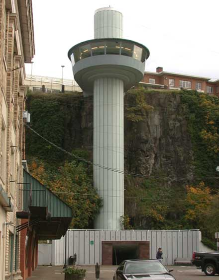 Oregon City Municipal Elevator in Oregon City (taken Oct. 21, 2004)